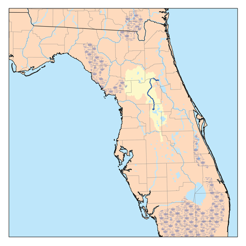 This is a map of the Ocklawaha River watershed. I, Karl Musser, created it based on USGS data.